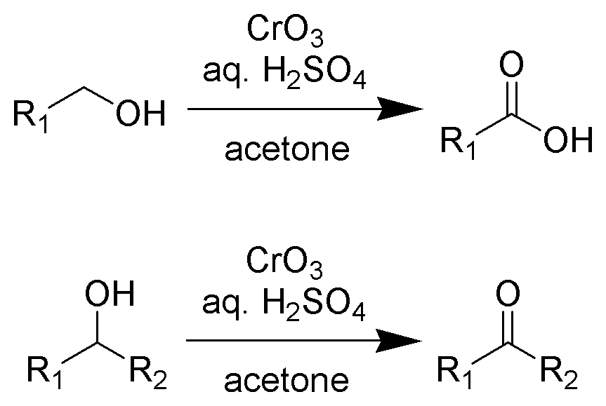 Description: Reaction scheme of the Jones oxidation. Author, date of creation: selfmade by ~K, 27 November 2005. Source: - Copyright: Public domain. (PD) Comments: high-resolution b/w PNG; ChemDraw / The GIMP.